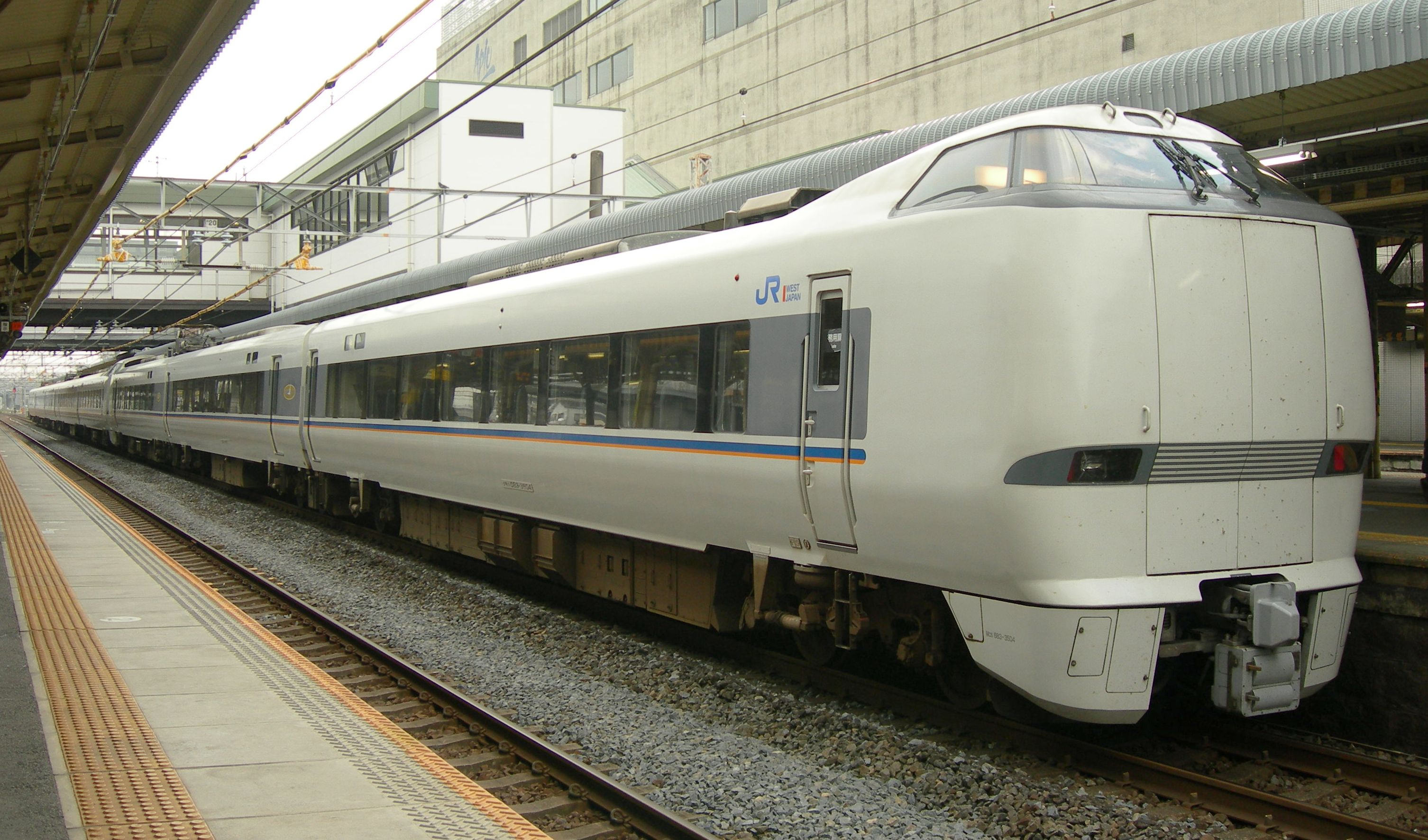 A JR West 683-2000 series Shirasagi EMU formation at Ogaki Station on a Home Liner service